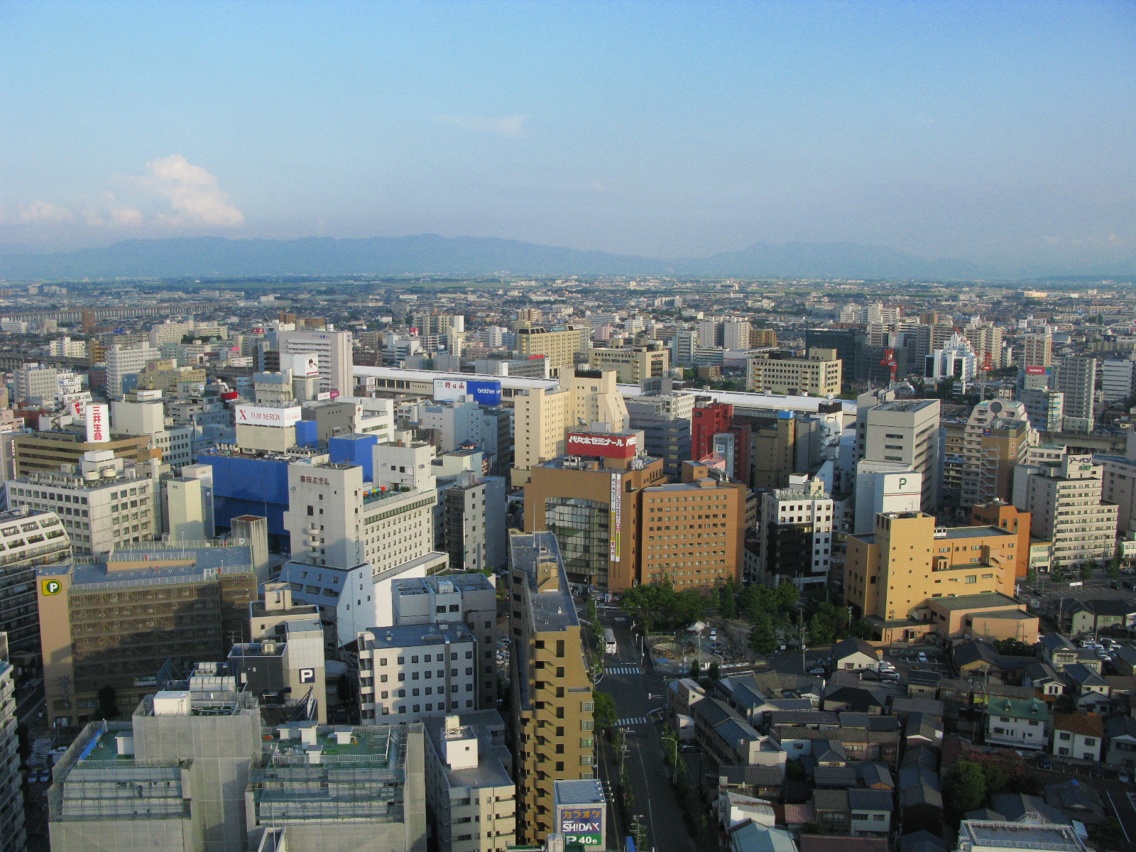 Niigata Station area.